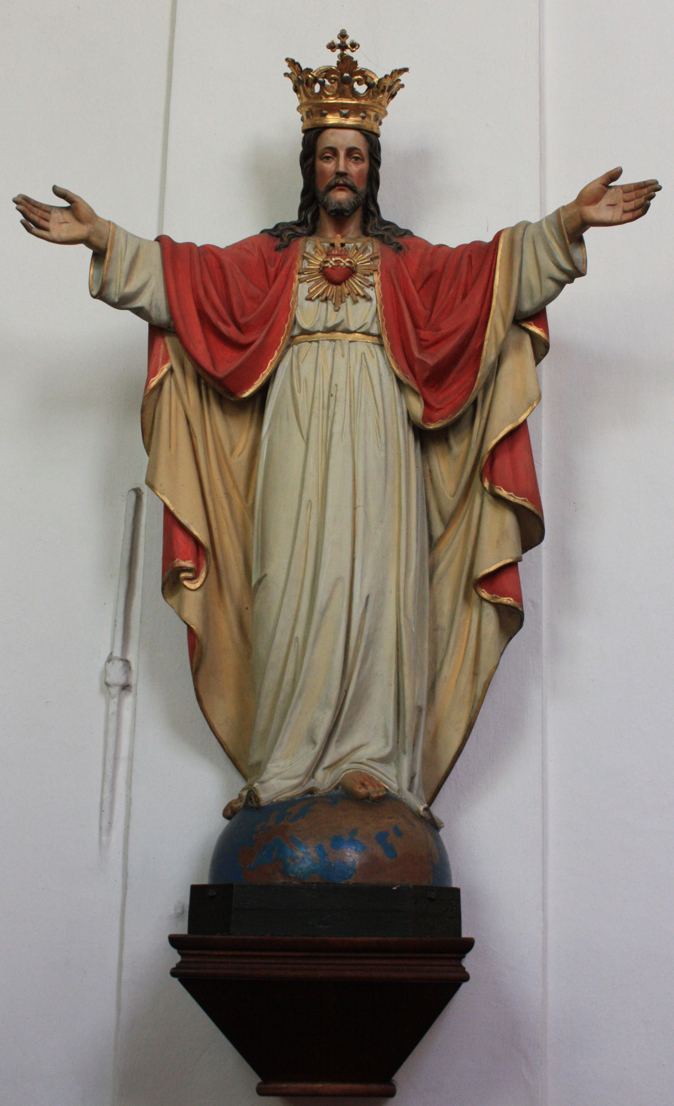 Parish church: Sacred Heart of Jesus Christ Locality:Kirchplatz, Sankt Veit an der Glan Community:Sankt Veit an der Glan